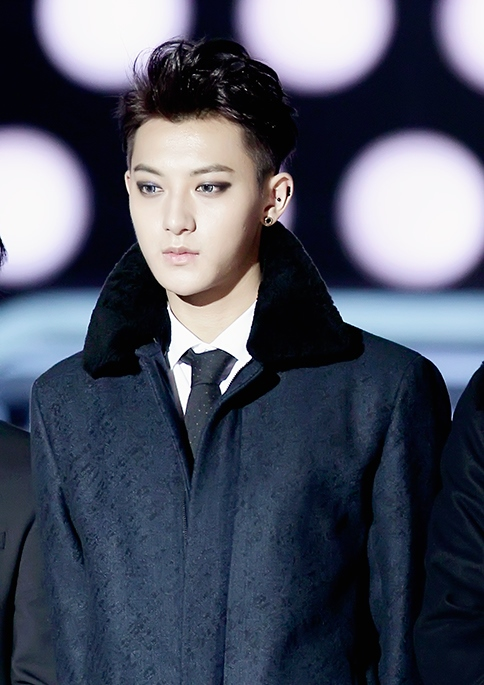 Tao Huang at the Mnet Asian Music Awards on December 3, 2014.